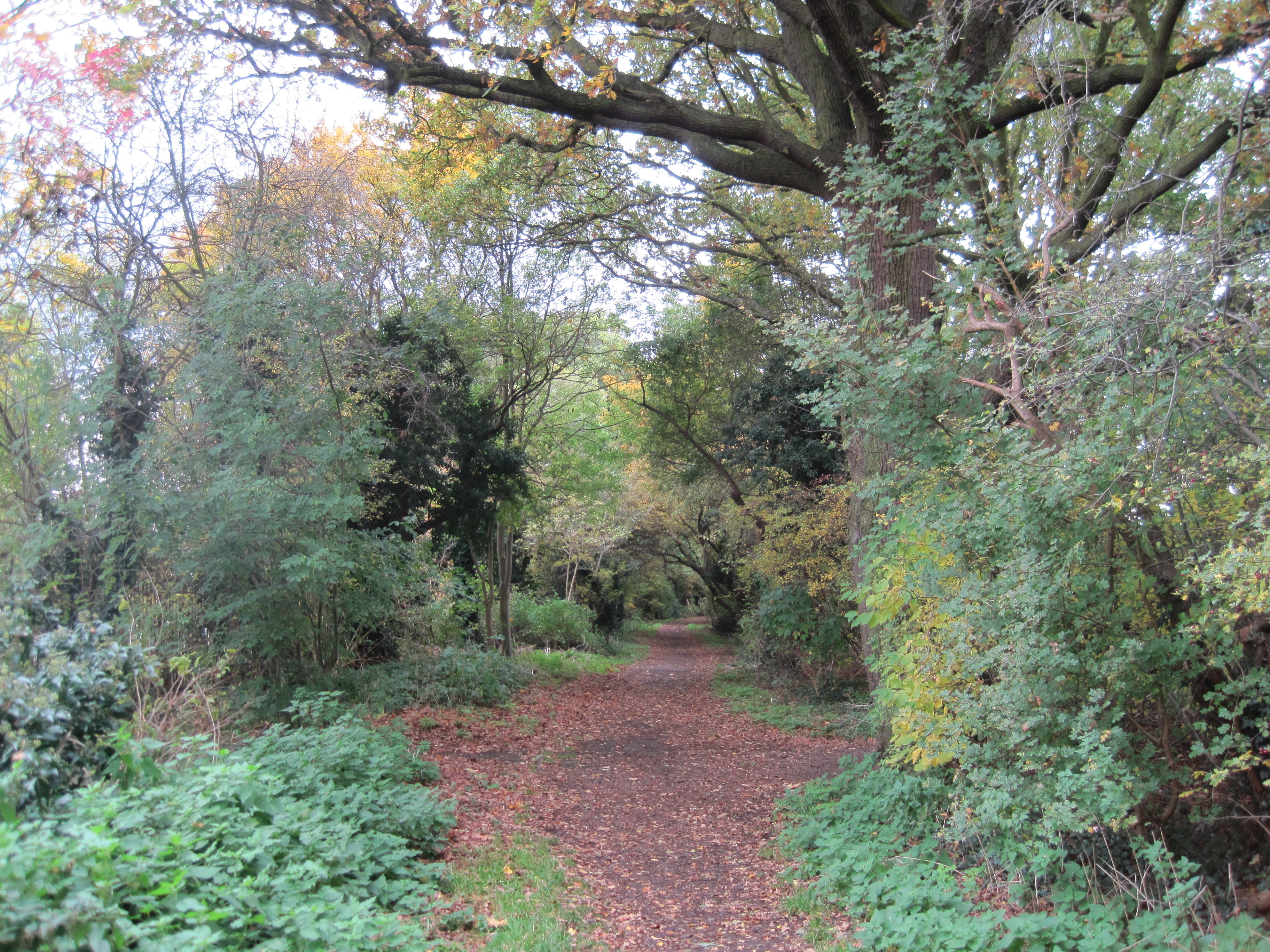 Ashley Lane, nature reserve in Hendon, Barnet, London